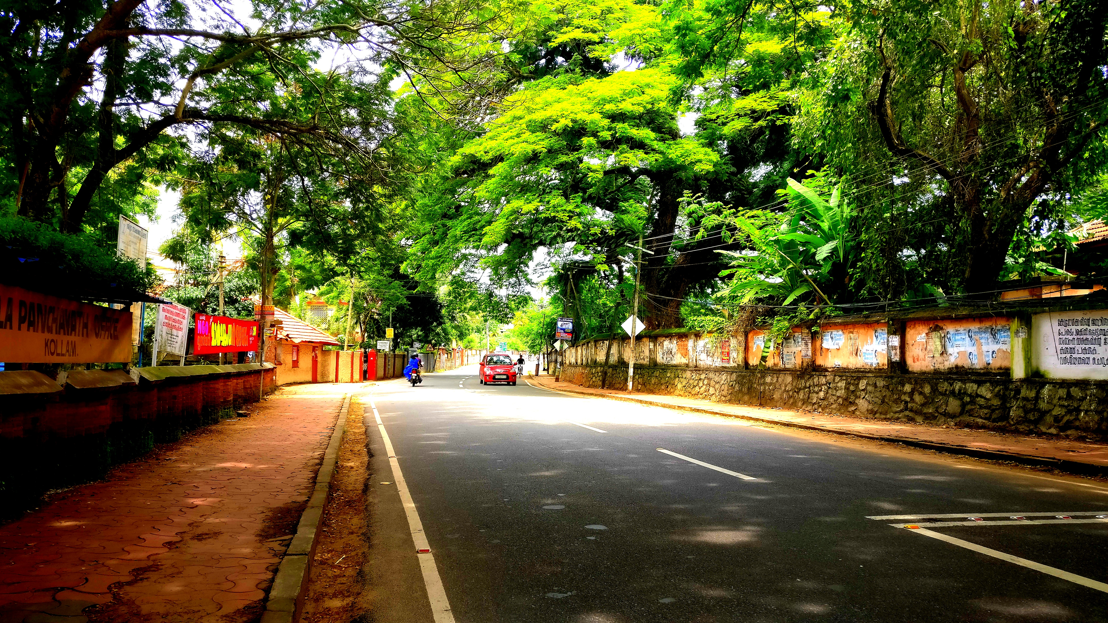 National Highways 183 (NH 183) is located in India. It connects Kollam in Kerala with Dindigul in Tamil Nadu.